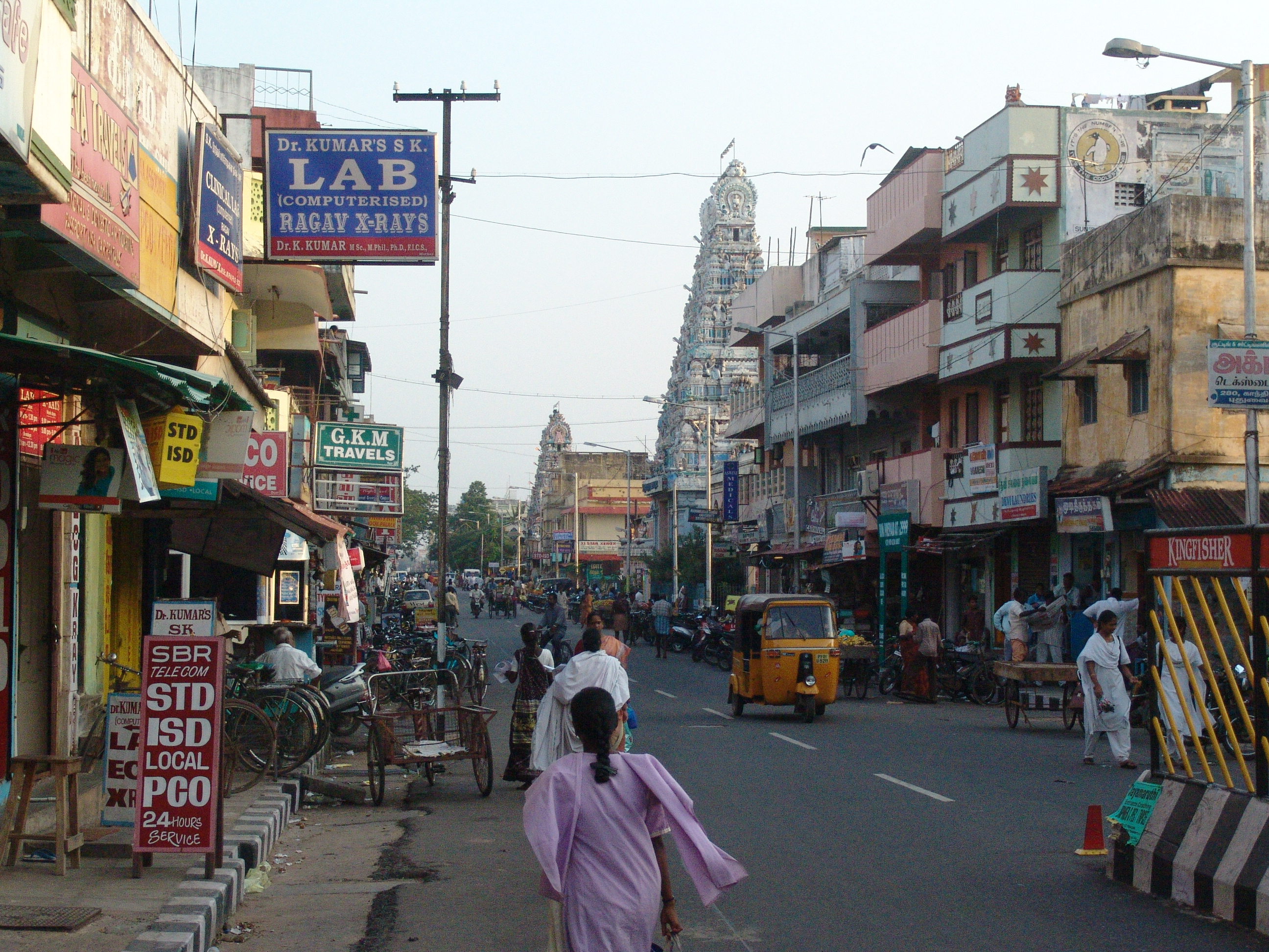 A street in Puducherry, India.